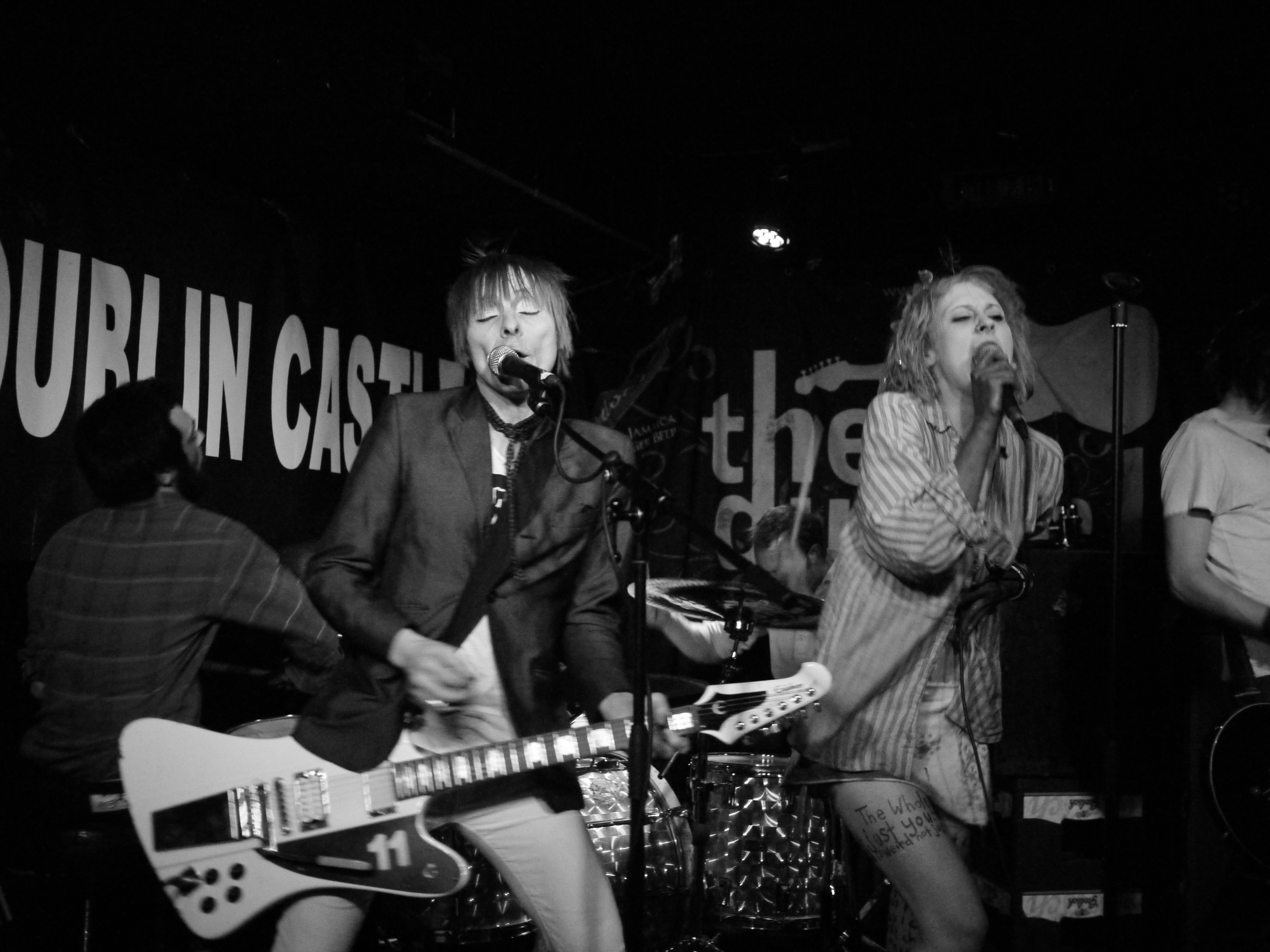 UK rock band The Dogbones performing at The Dublin Castle (London)